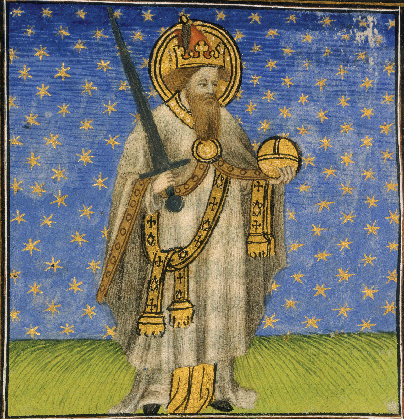 A picture from the 15th century depicting the emperor Charlemagne.